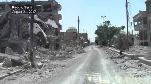 A destroyed part of Raqqa.